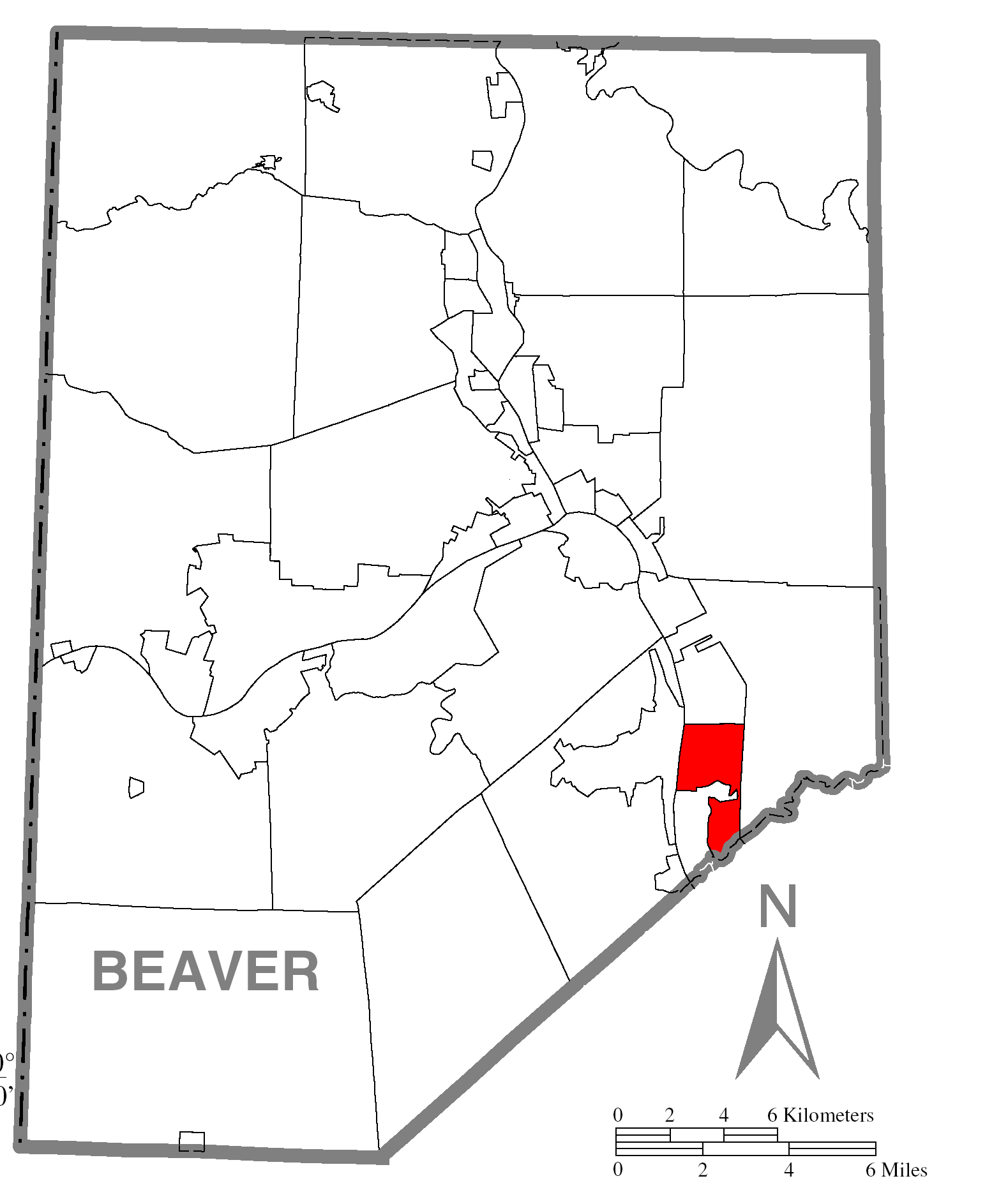 A map of Beaver County showing Harmony Township, Pennsylvania (alternate) highlighted on the map.